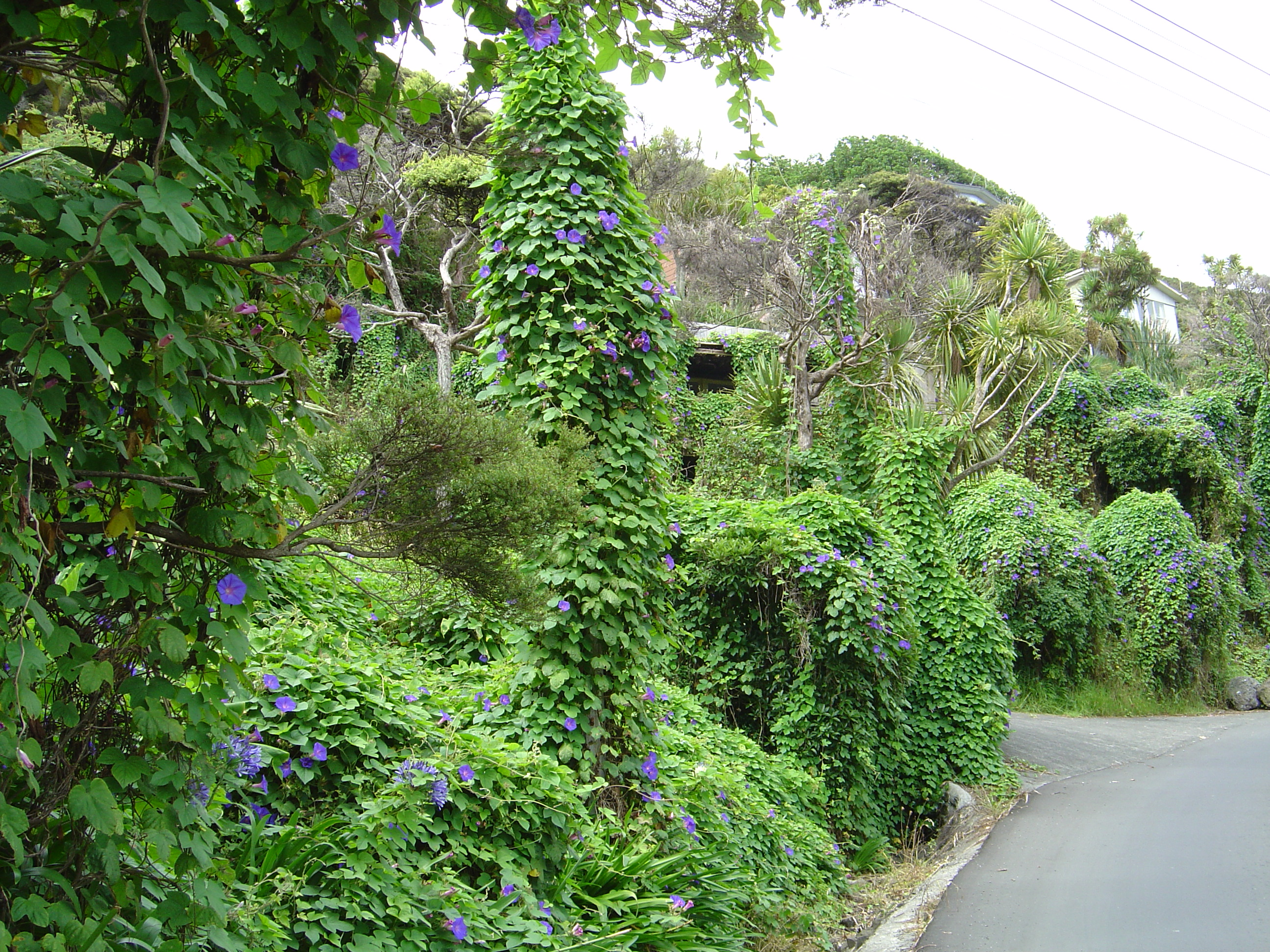 Blue morning glory (Ipomoea indica) on the main road to Piha in New Zealand.